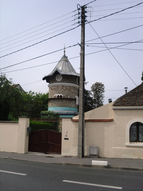 Pigeon loft in Longjumeau, Essonne, France